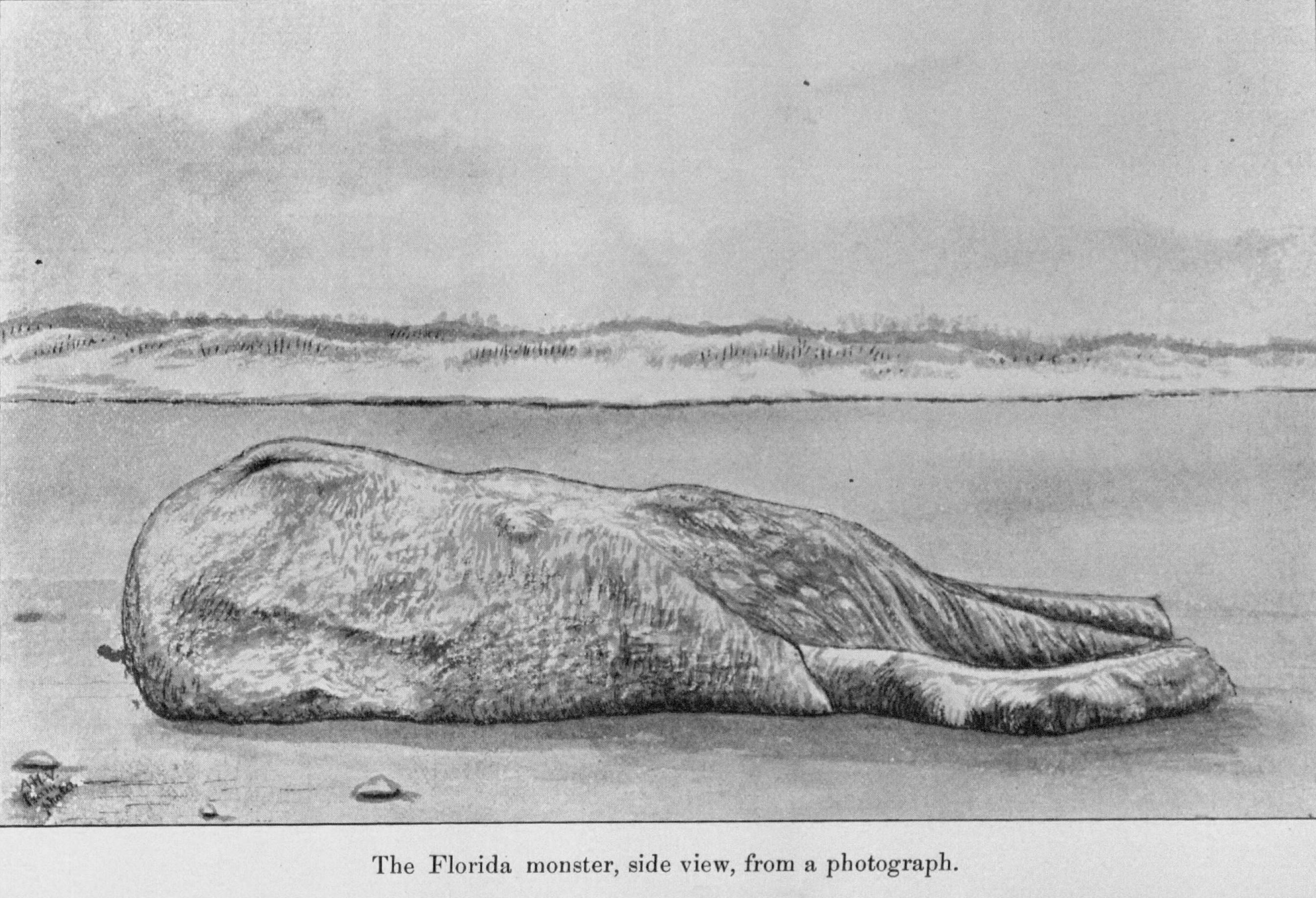 St. Augustine "sea monster" of 1896, drawn by Addison Emery Verrill from a photograph